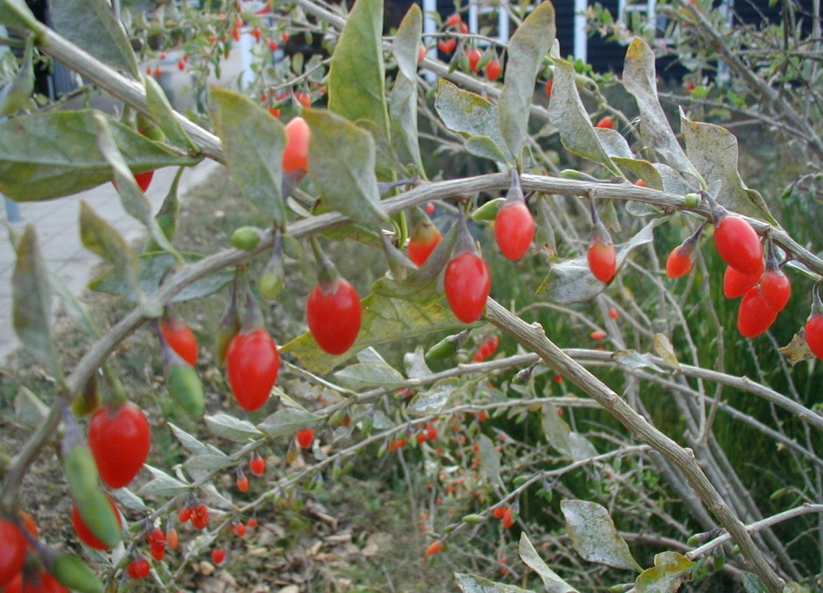 Lycium barbarum, the east coast of Jutland, Denmark. These are the fruits of Lycium barbarum